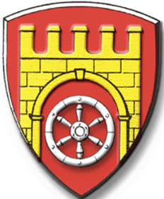 Coat of Arms of Niedernberg